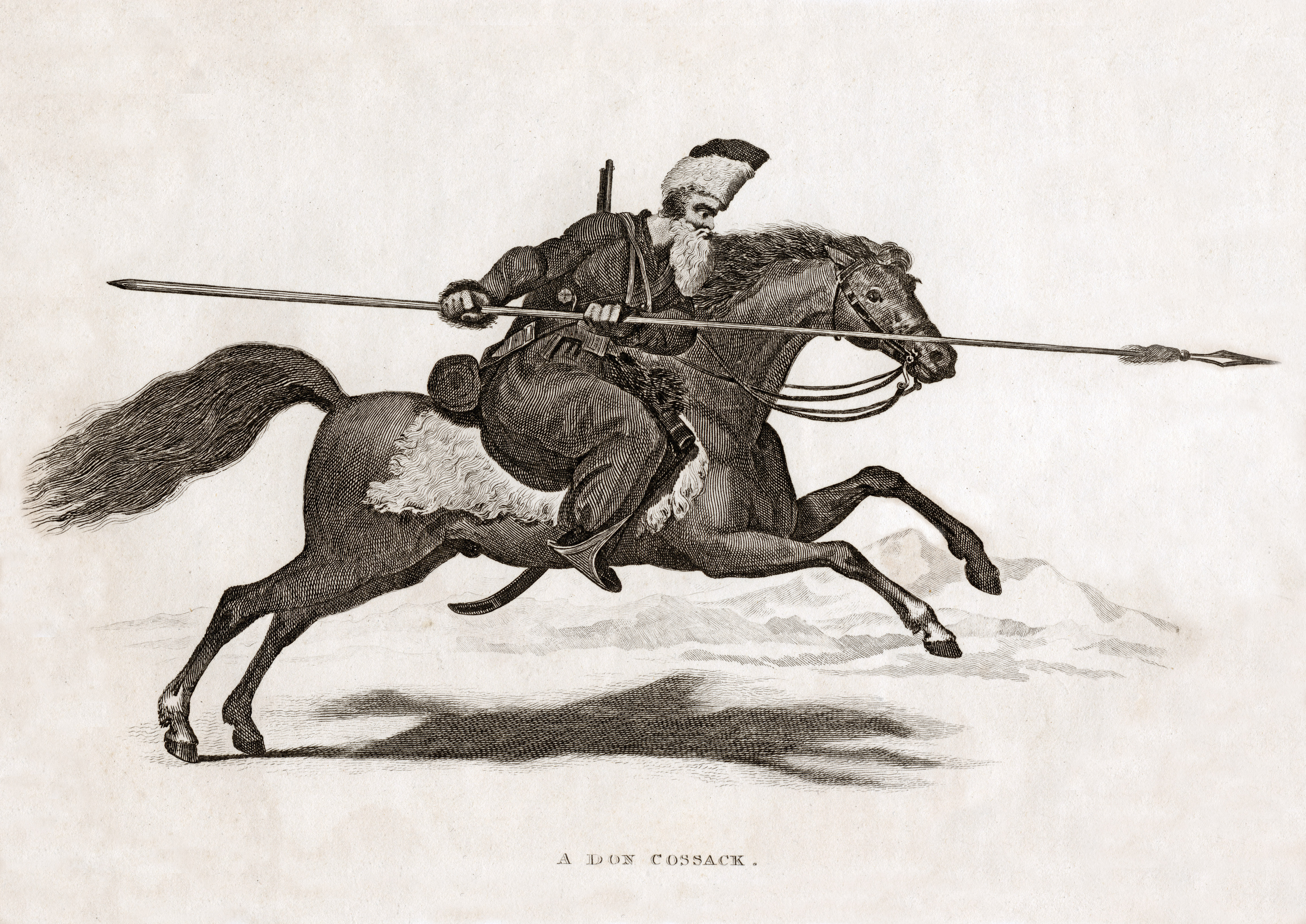 Aquatint print of a Don Cossack.